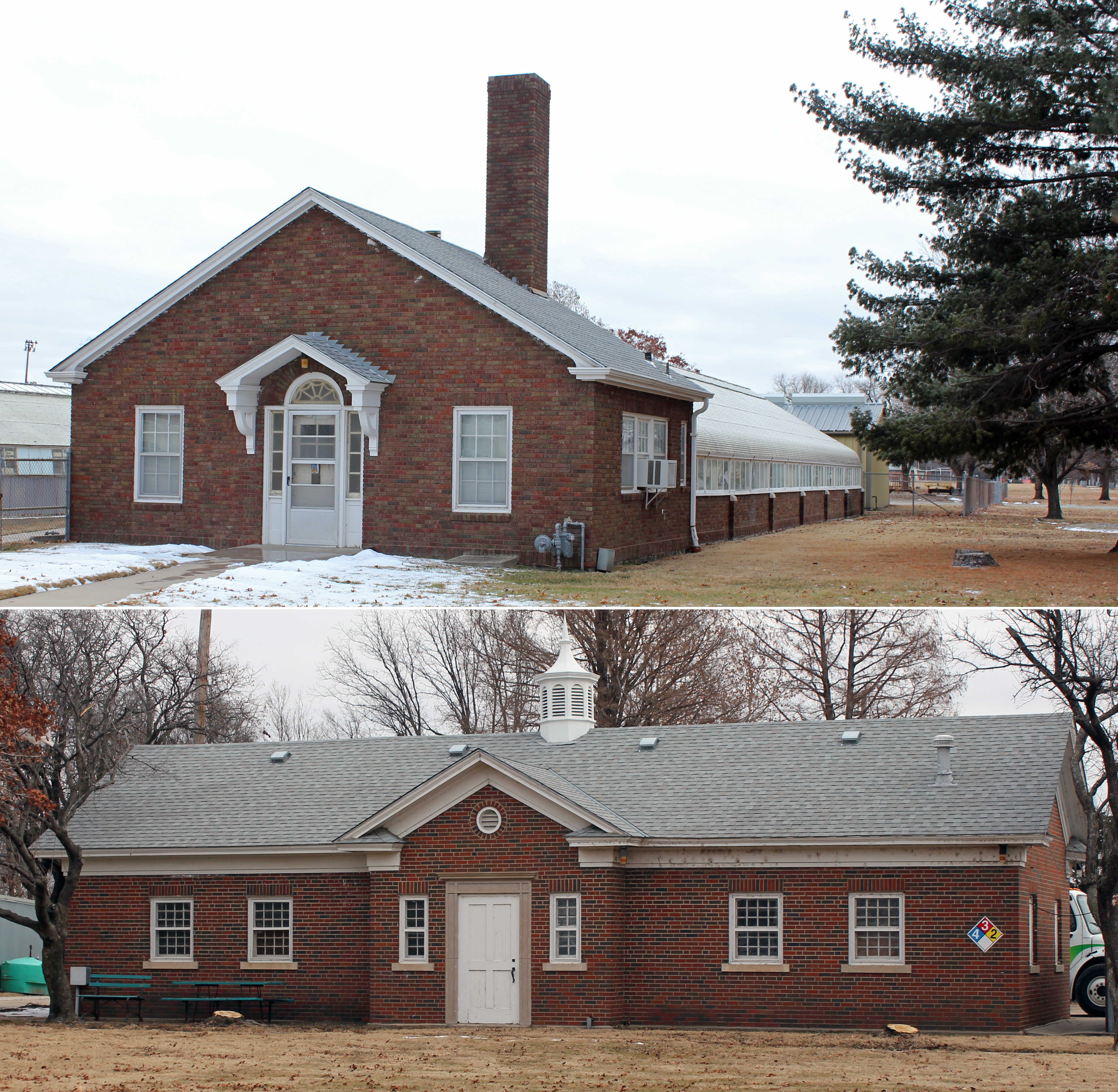 The Linwood Park Greenhouse and Maintenance Building, located at 1700 South Hydraulic Street in Wichita, Kansas. The property is listed on the National Register of Historic Places. The top panel of the montage shows the greenhouse; the bottom panel shows the maintenance building.